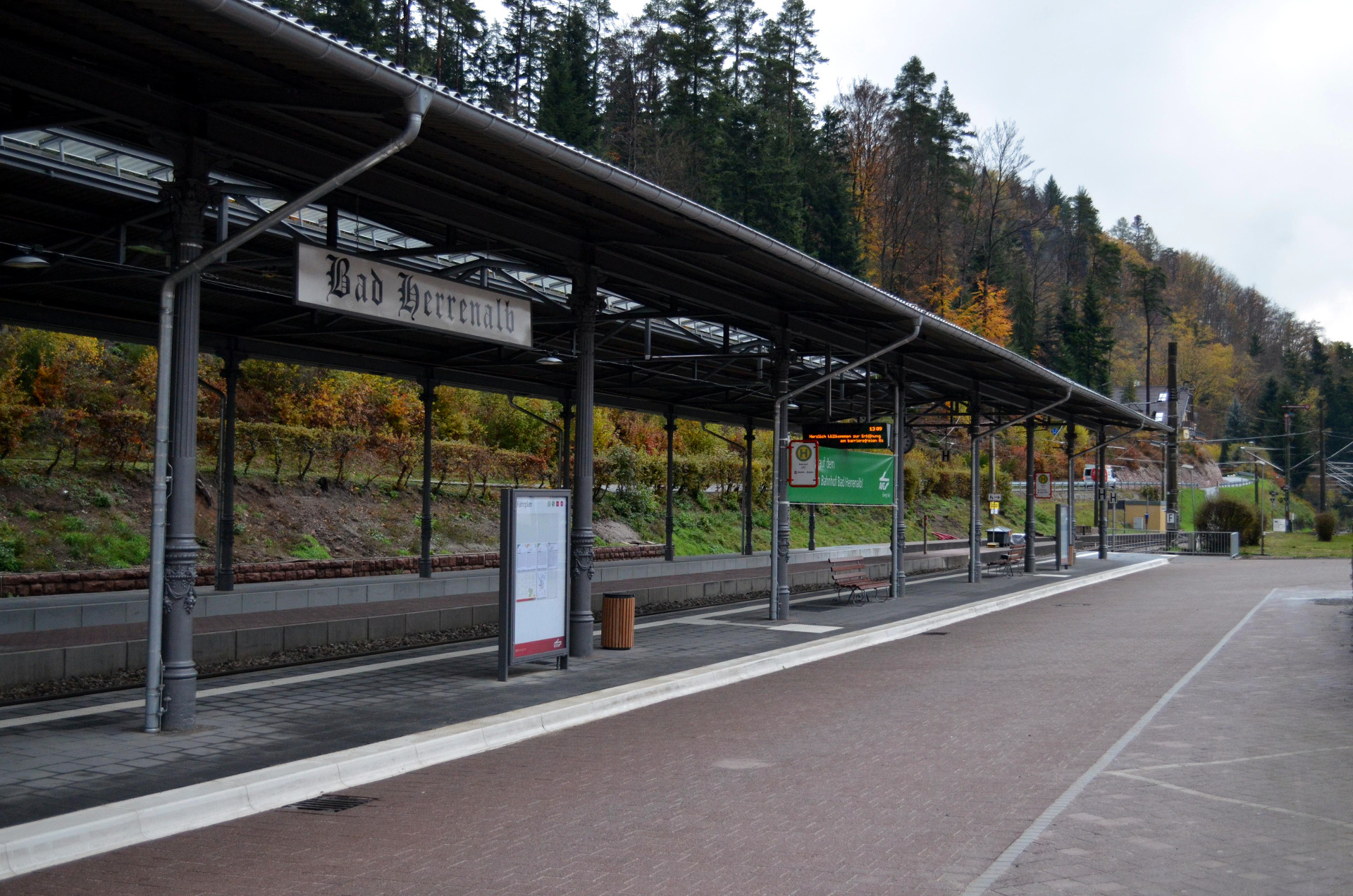 View of the 2016 renovated and now accessible station platform of the Bad Herrenalb.